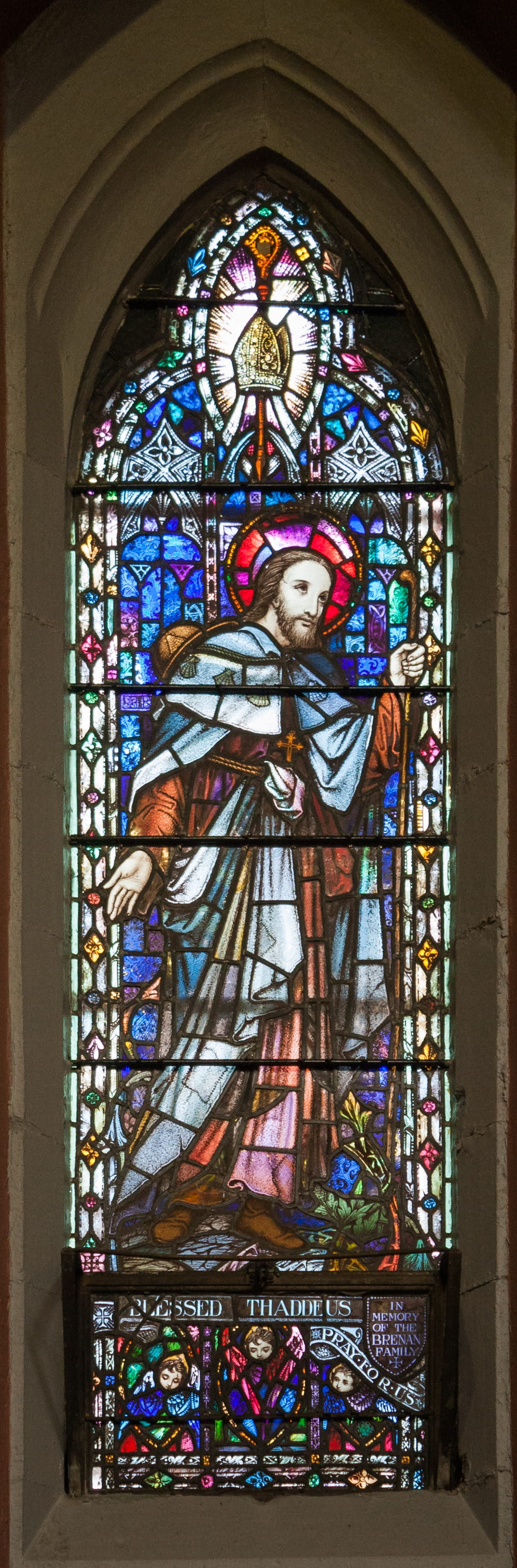 Left-most stained glass window in the north aisle, depicting Blessed Thaddeus McCarthy wearing the oyster shell emblem, created by Earley and Company. The window was erected in memory of the Brenan family.